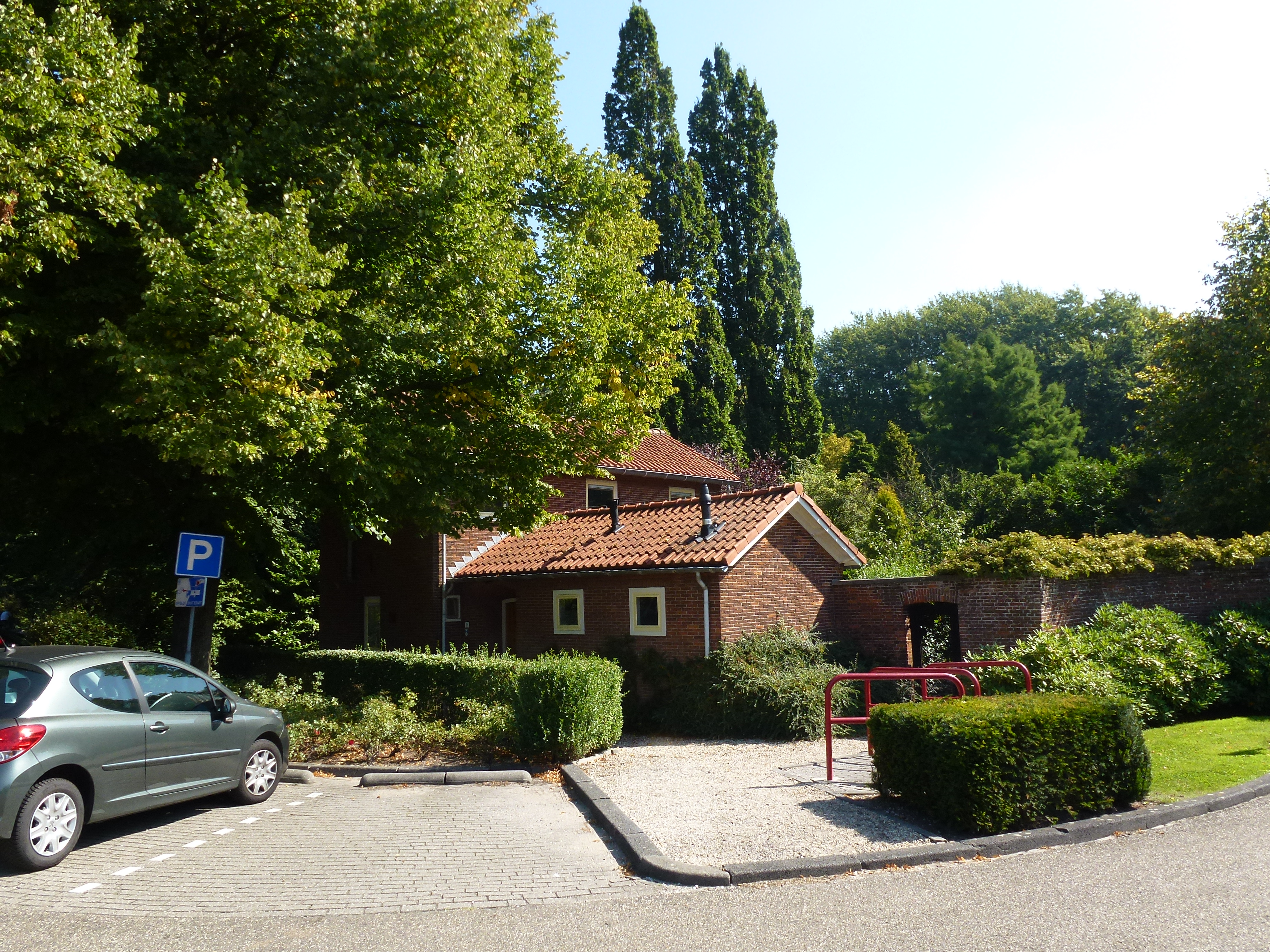 House on the terrain of the graveyard "IJsselhof" in Gouda. Year: 1949